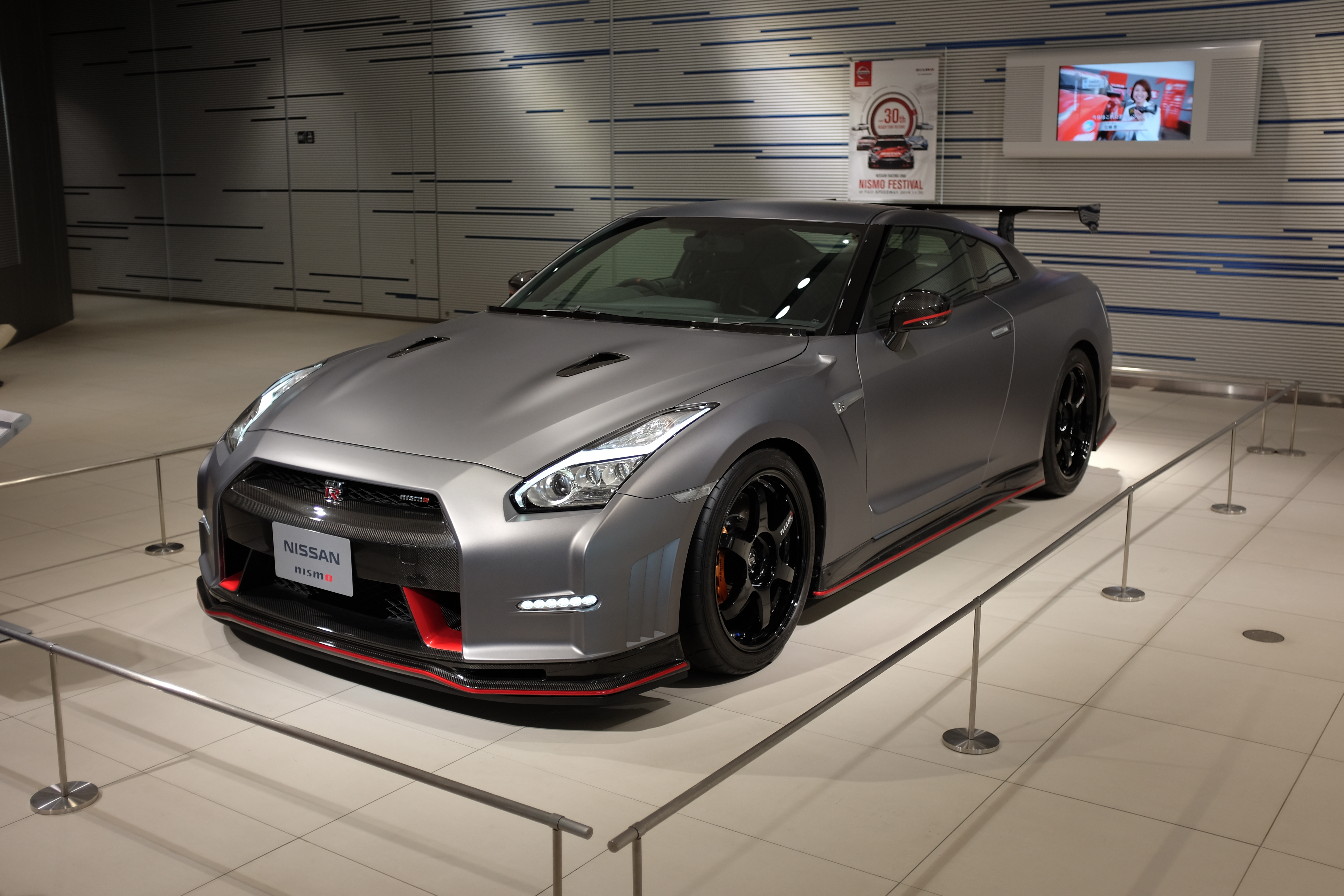 Nissan GTR Nismo Edition at Nissan World HQ in Yokohama, Japan